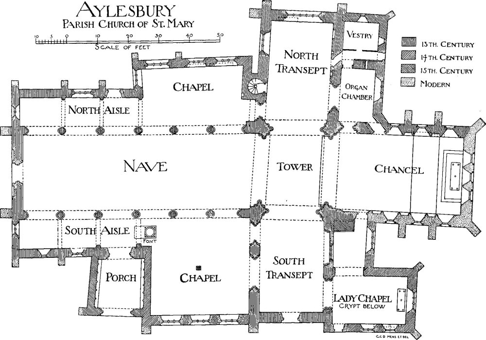 Plan of St Mary the Virgin, Aylesbury (1869)